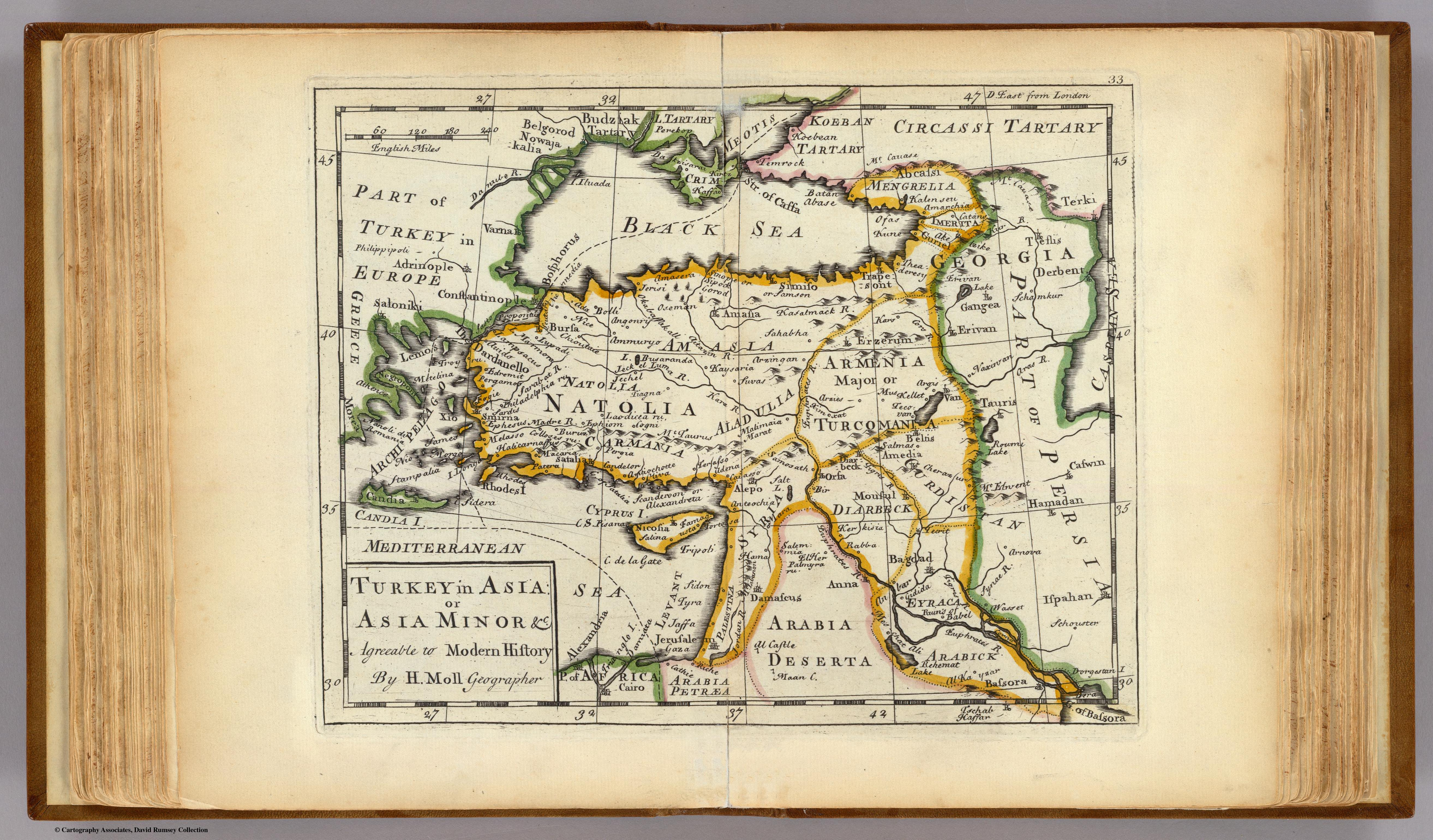 Turkey in Asia; or Asia Minor &c. Agreeable to modern history. By H. Moll Geographer. (Printed and sold by T. Bowles next ye Chapter House in St. Pauls Church yard, & I. Bowles at ye Black Horse in Cornhill, 1736?)